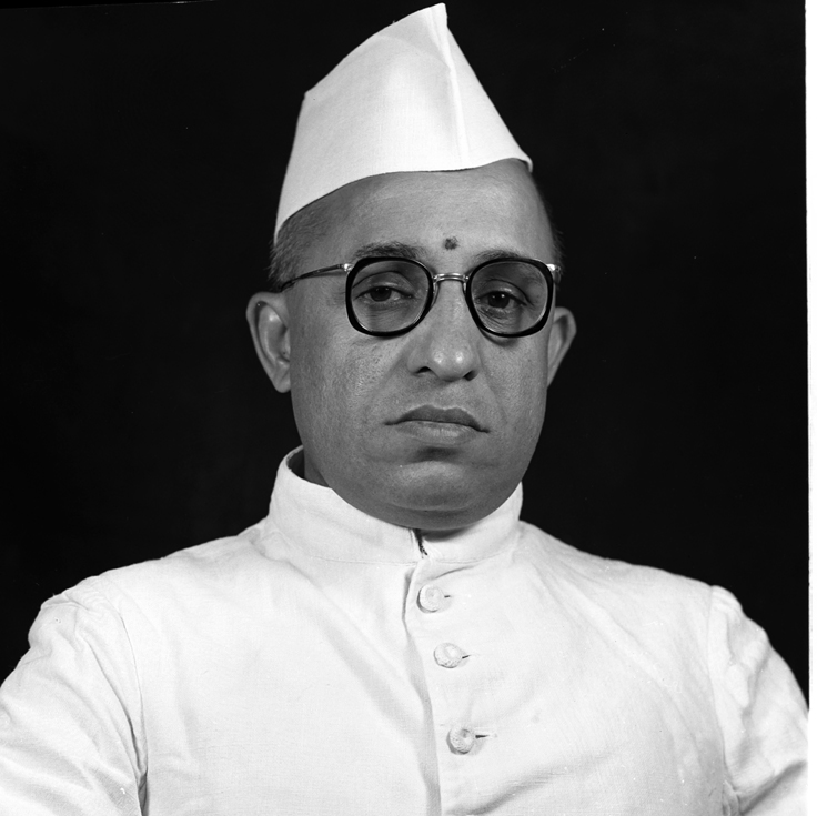 Caption:- Studio/Mar.53,A32sShri Semmangudi R. Srinivasa Iyer. Photo Number:-32433